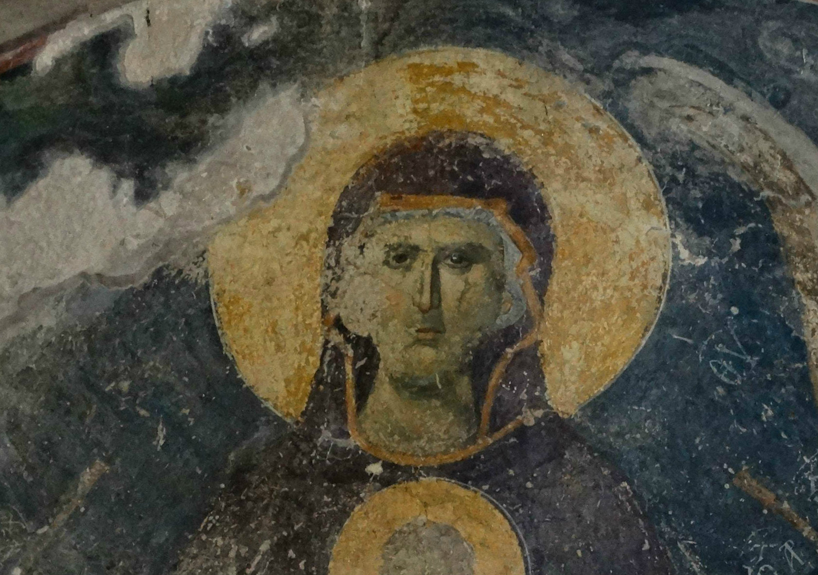 A fresco from the Martviili Cathedral, Georgia